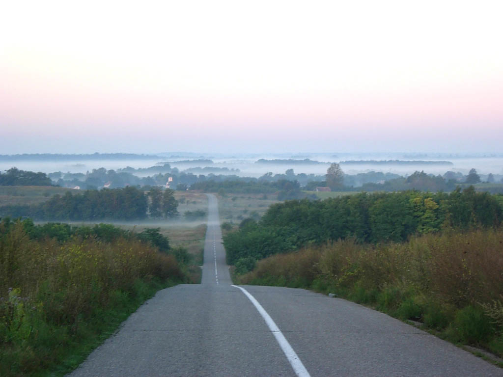 Foggy morning on the Deliblato Sands, Serbia.